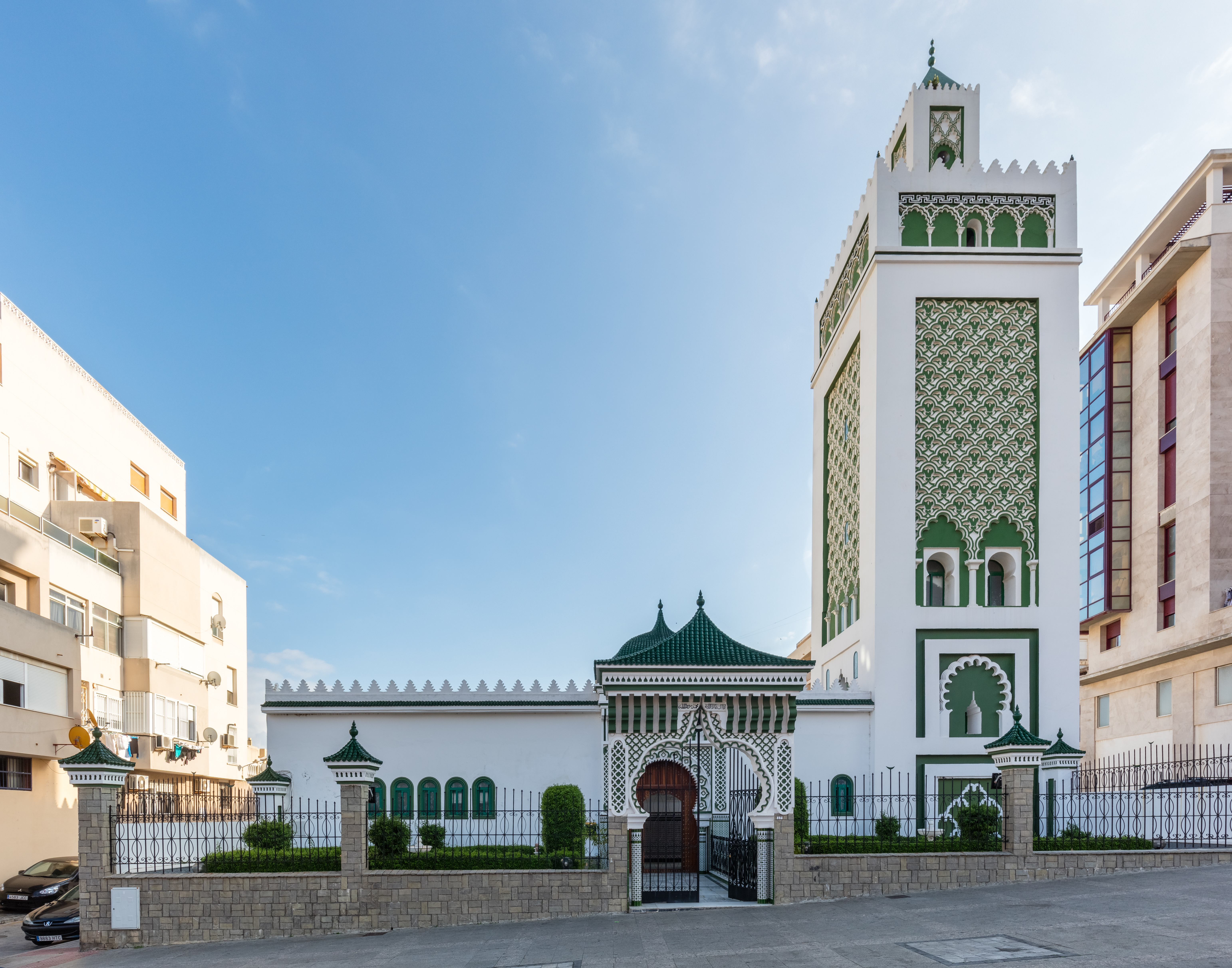 Mezquita Muley El Mehdi, Ceuta, Spain